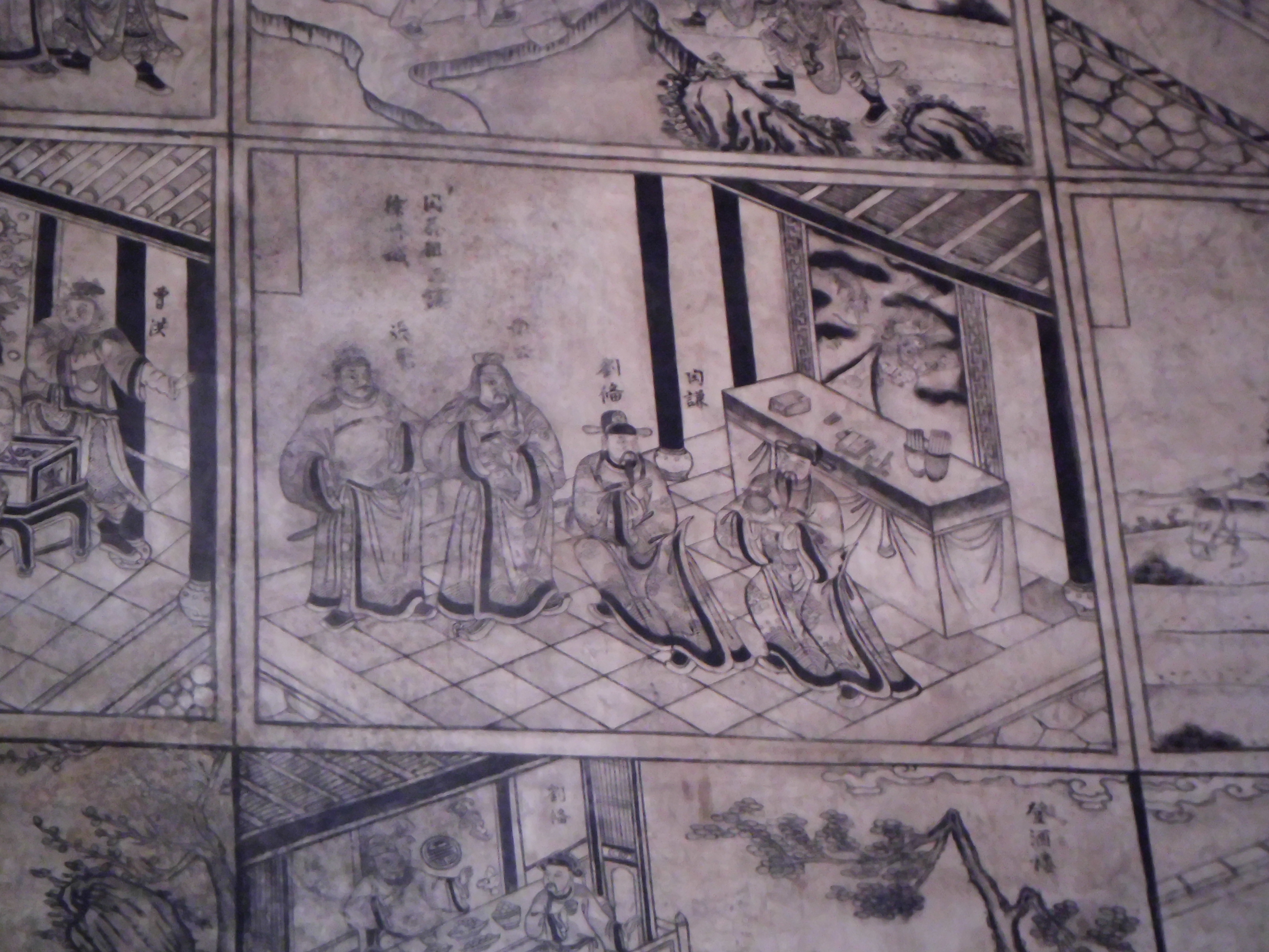 วัดประเสริฐสุทธาวาส